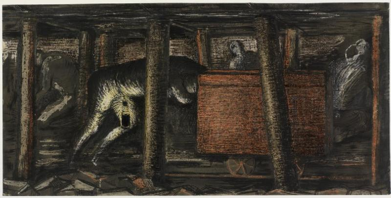 Scene is the interior of a mine shaft with miners working a coal face in the background. In the foreground a miner pushes a coal tub on a track through wooden props with a Davy lamp hanging from his waist.